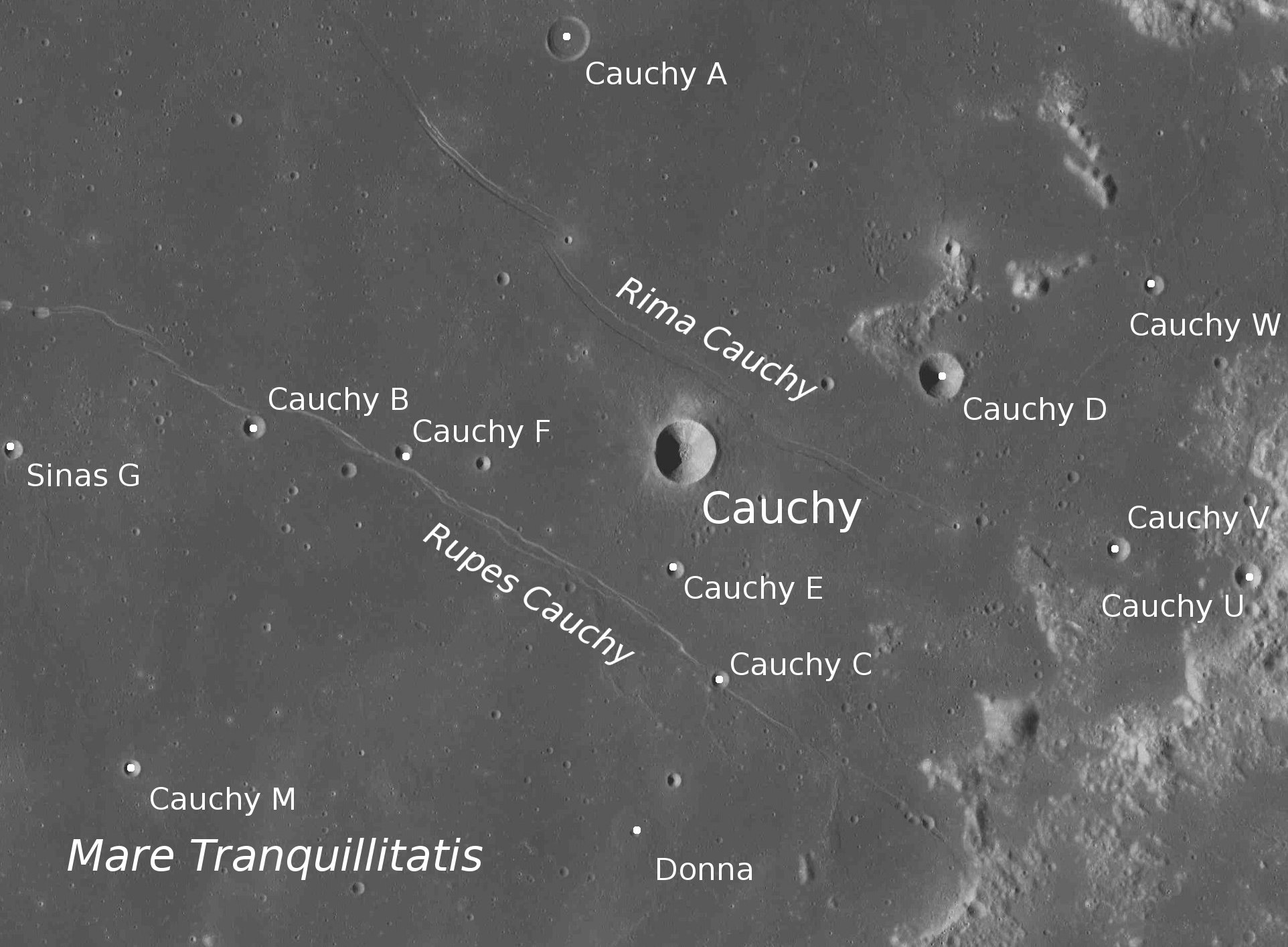 Crater Cauchy with satellite features, Rima Cauchy and Rupes Cauchy (detail of LRO - WAC global moon mosaic; Mercator projection)